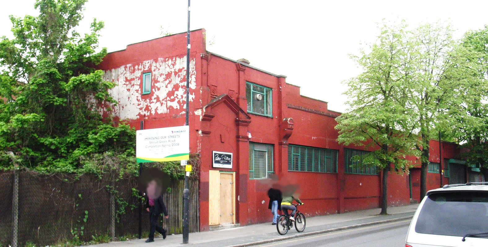 The Scala Cinema, Stroud Green, London, N4, was opened in 1914 and closed in 1924. It was one of London's earliest cinemas. It was demolished without any fuss in June 2008.